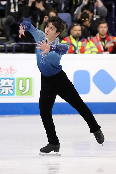 Shoma Uno at the 2017 World Championships.